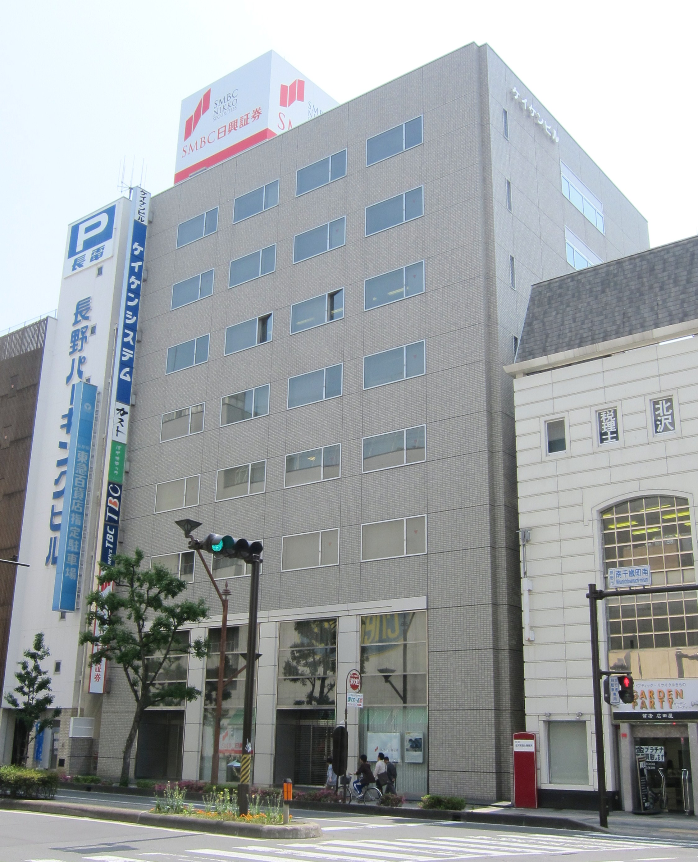 Headquarters of Gust Corporation (Keiken Building)